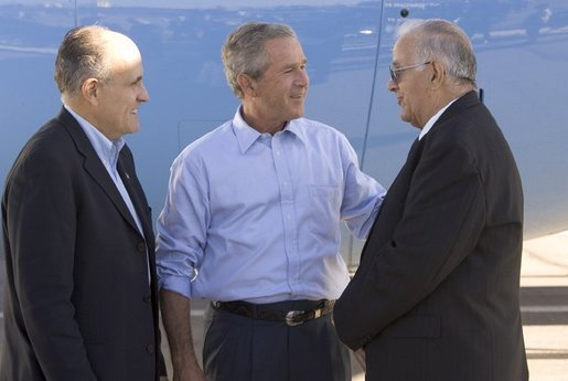 President George W. Bush and former New York City mayor Rudy Giuliani talk with Freedom Corps greeter Frank Ontiveros in Las Cruces, New Mexico on Thursday August 26, 2004.